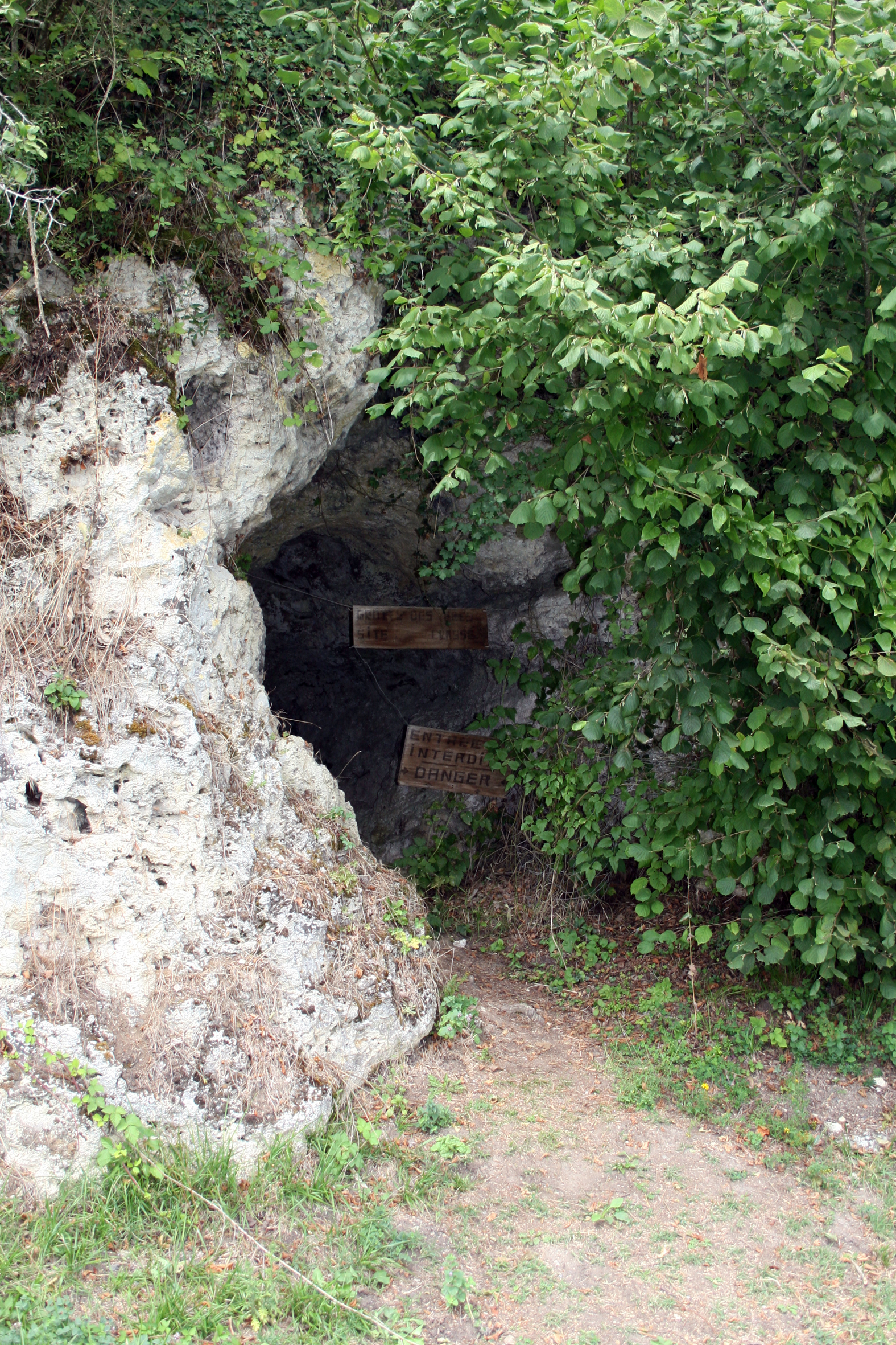 La Grotte des Fées archaeological site (Allier, France), type site of Châtelperronian culture